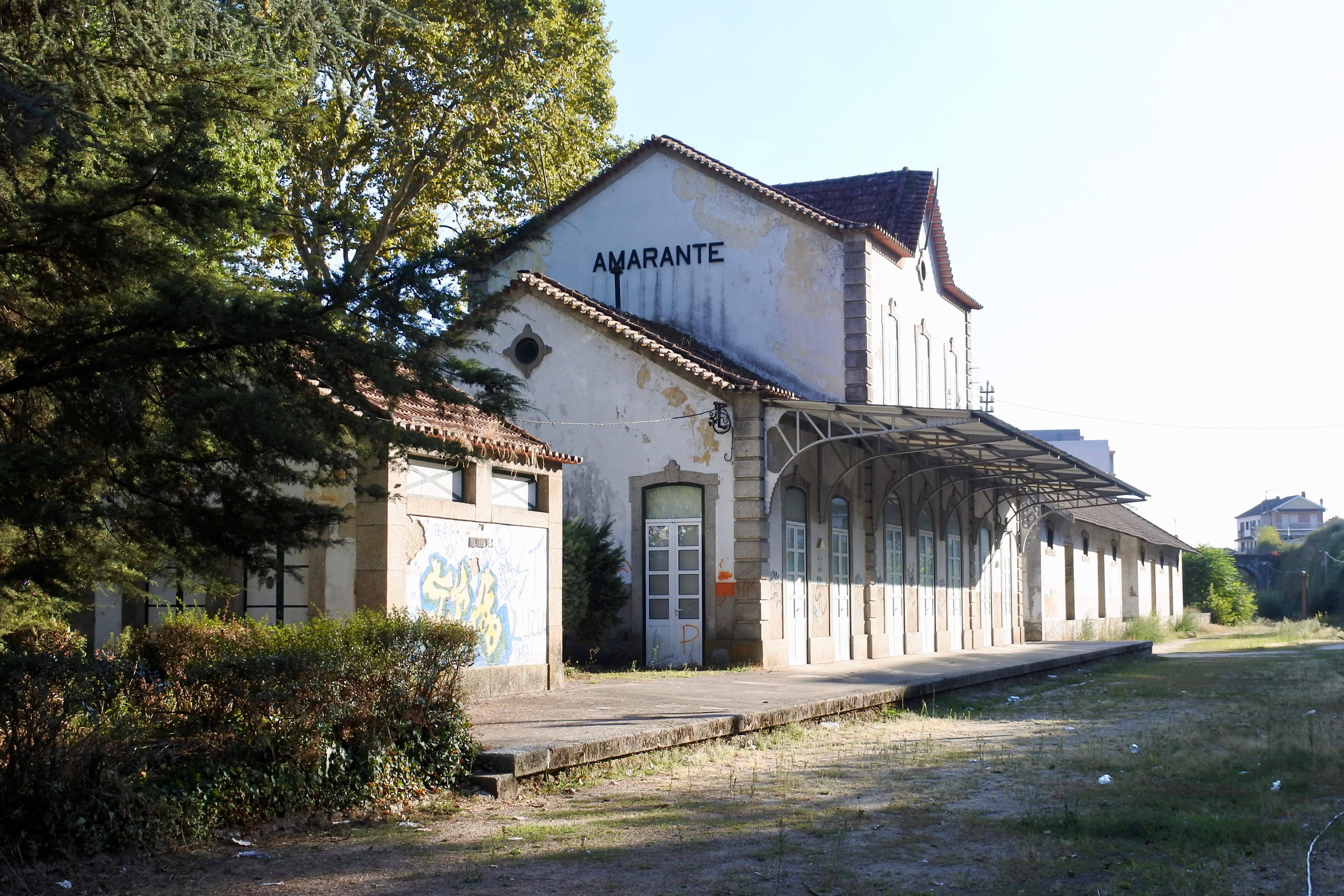 The end of the cyclepath: Amarante train station